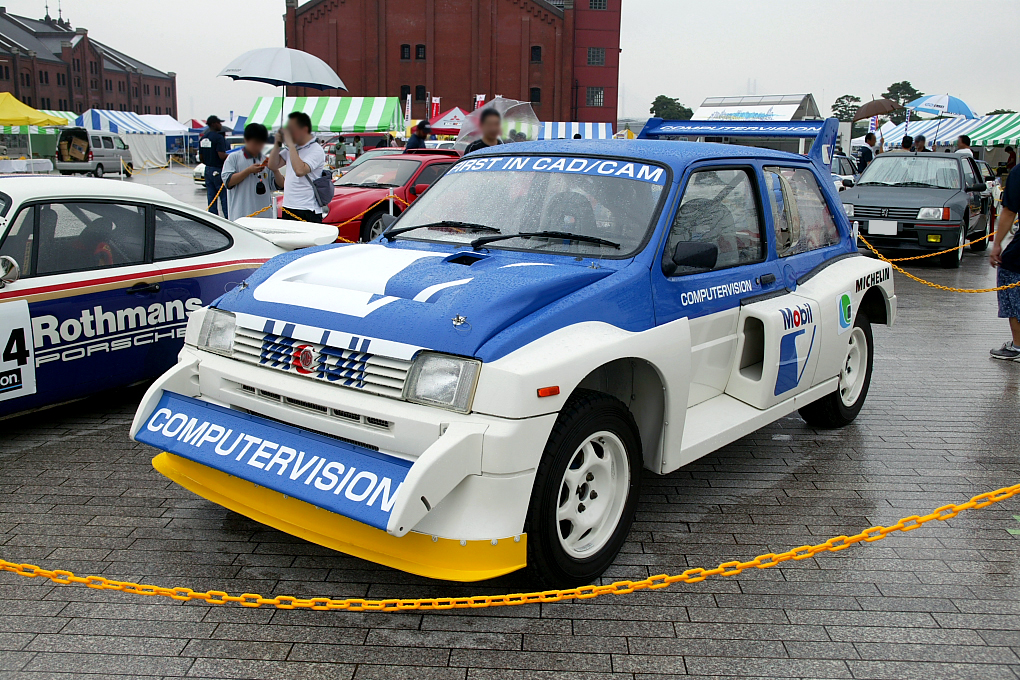 MG Metro 6R4 at The Spirit of Rally 2005.